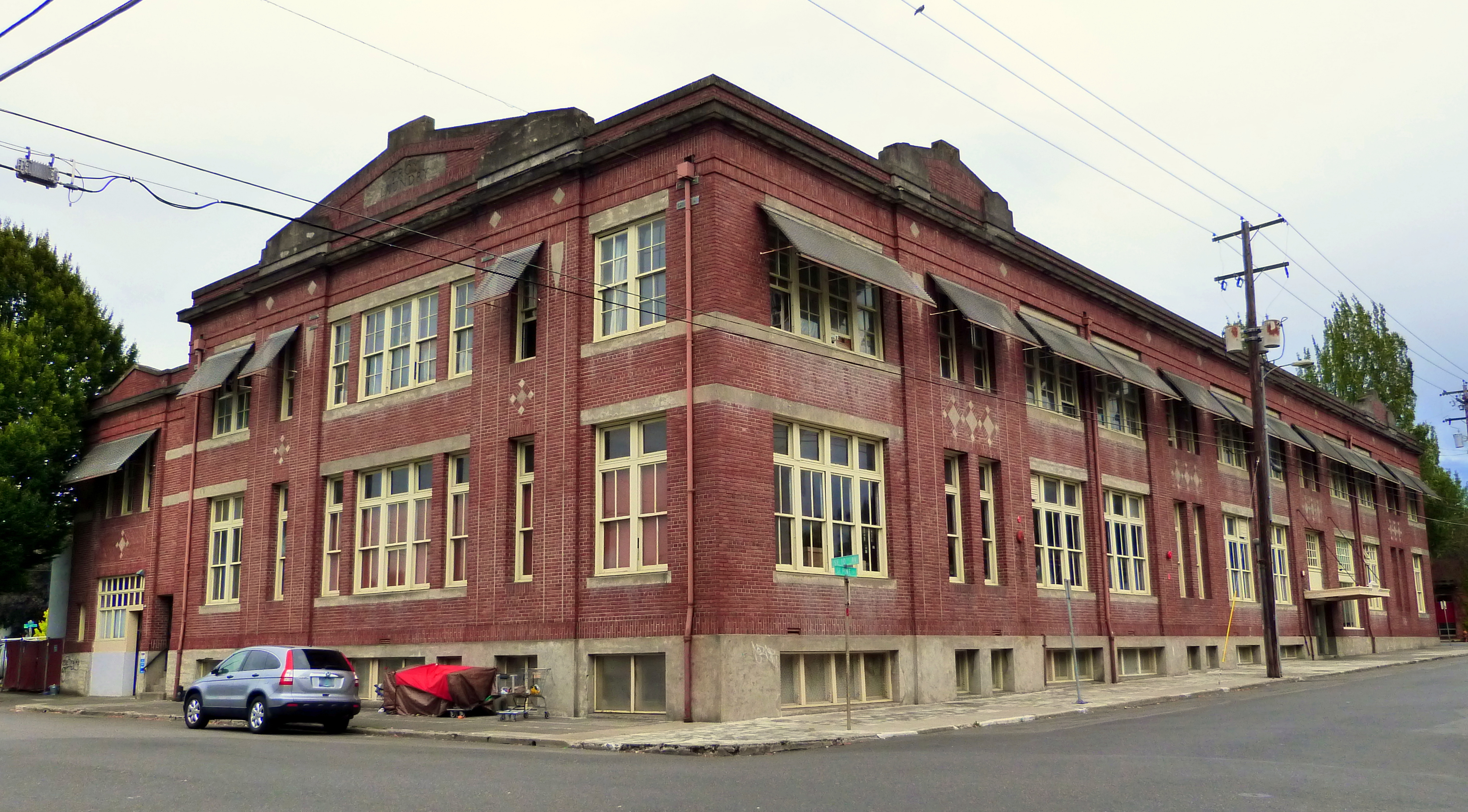 The historic Troy Laundry Building (built 1913), located at 1025 Southeast Pine Street in Portland, Oregon, United States, is listed on the US National Register of Historic Places.